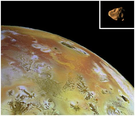 Composite view of Amalthea and Io at the same scale. The visible part of Amalthea is about 150 kilometers across. The colors are approximate. Amalthea is actually much darker than Io, but is displayed at a similar brightness for ease of viewing. The shape of Amalthea is controlled largely by impact cratering and fragmentation. In contrast, Io, like Earth, has gravity sufficient to form it into a slightly ellipsoidal sphere. Amalthea is covered by craters because there are no processes which erode or cover them efficiently. On extremely volcanically active Io, impact craters are covered quickly by lavas and other volcanic materials. Some of the volcanic materials escape from Io and probably contribute to the reddish colors of Amalthea and the other small inner satellites. The Amalthea and Io composites, obtained by the solid state imaging (SSI) camera on NASA's Galileo spacecraft on different orbits, were placed side by side for comparison purposes. The Amalthea composite combines data taken with the clear filter of the SSI system during orbit six, with lower resolution color images taken with the green, violet, and 1 micrometer filters during orbit 4. The Io data was obtained on July 2nd, 1998 (orbit 14) using the green, violet, and 1 micrometer filters.